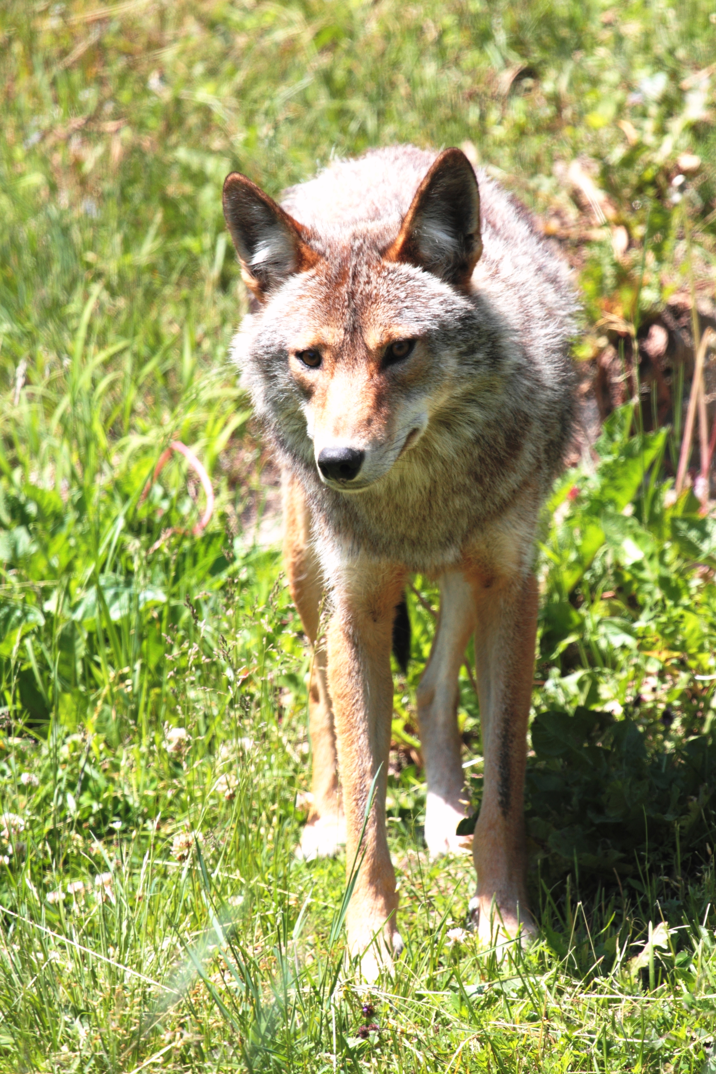 Coyote, Parc Omega, Quebec, Canada